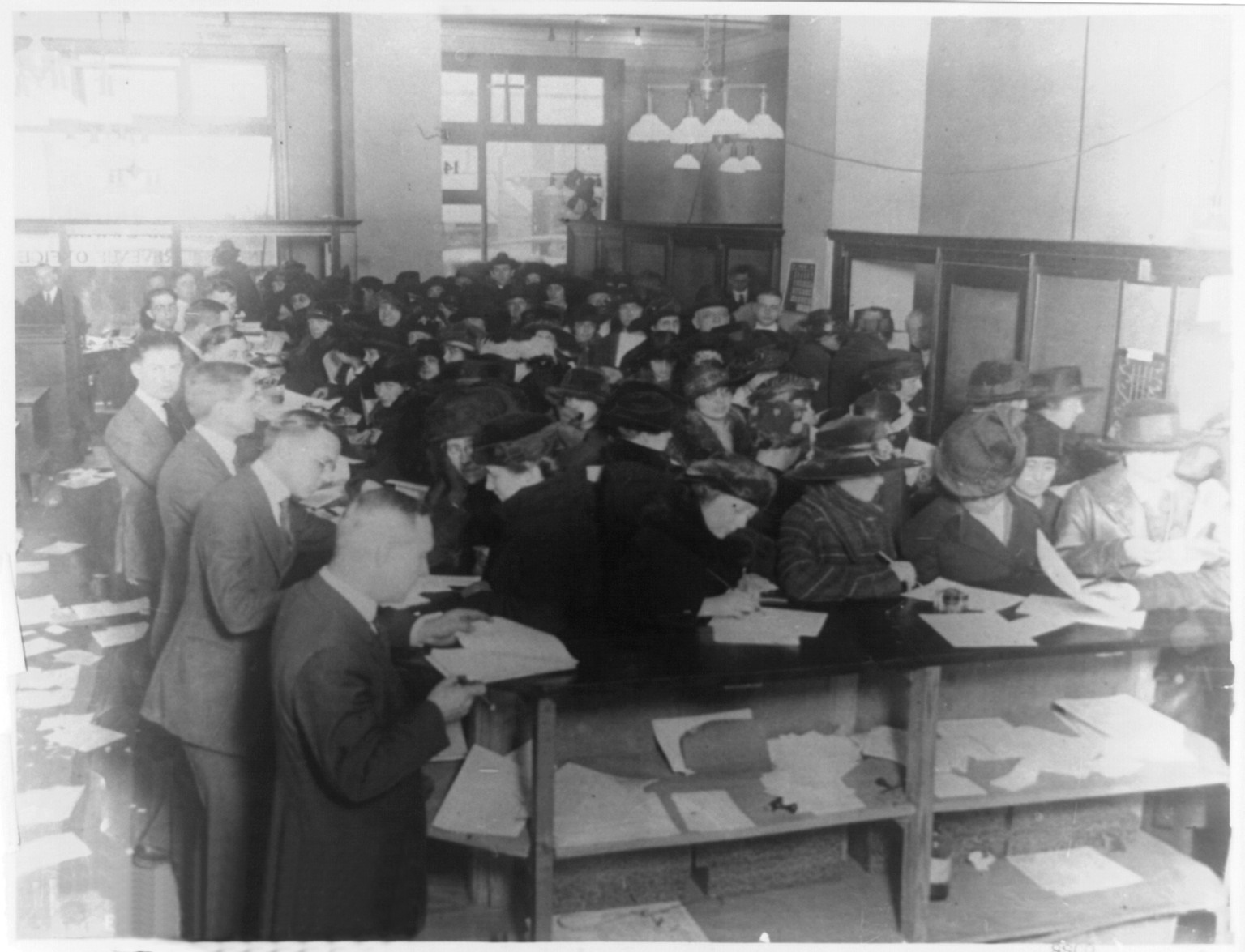 Large group of people filling out tax forms in Internal Revenue office